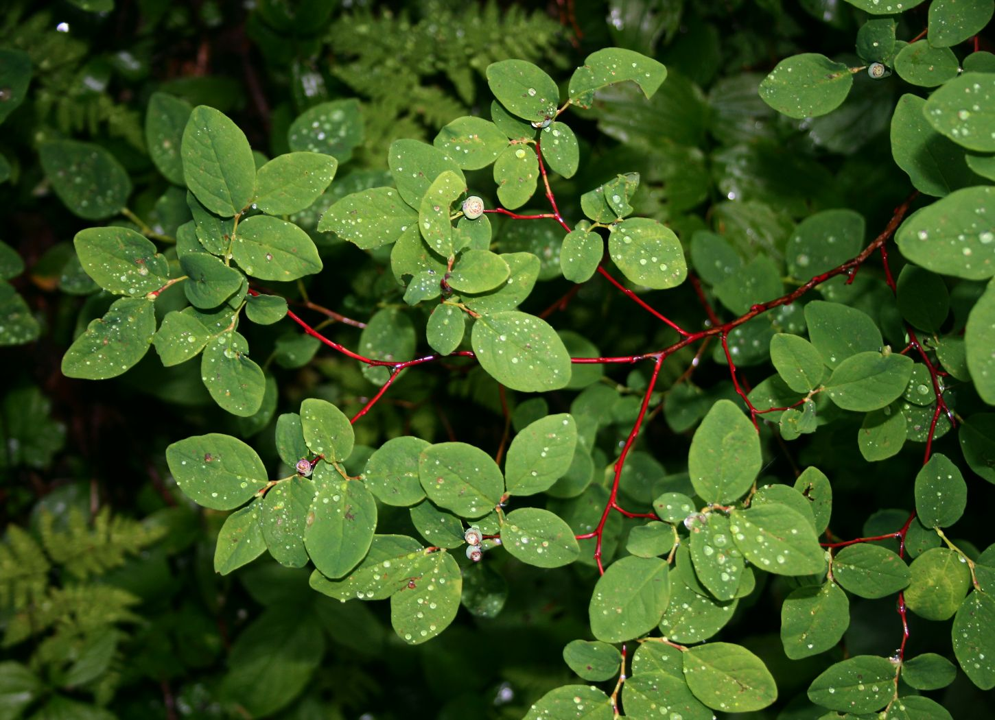 Vaccinium ovalifolium, Heidekrautgewächse (Ericaceae) - Kanada/Canada: British Columbia, Shuswap Highland, ca. 8 km ESE Sicamous, ca. 1600 m